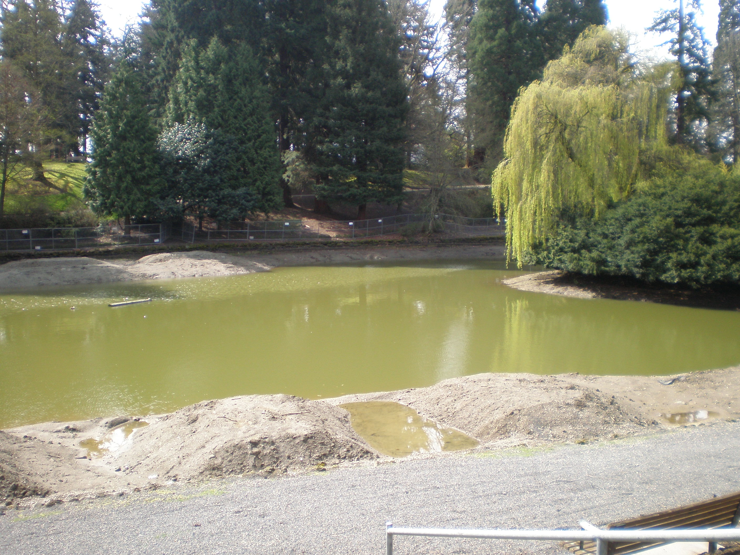 Firwood Lake in Laurelhurst Park, Portland, Oregon. Picture taken during lake restoration project.